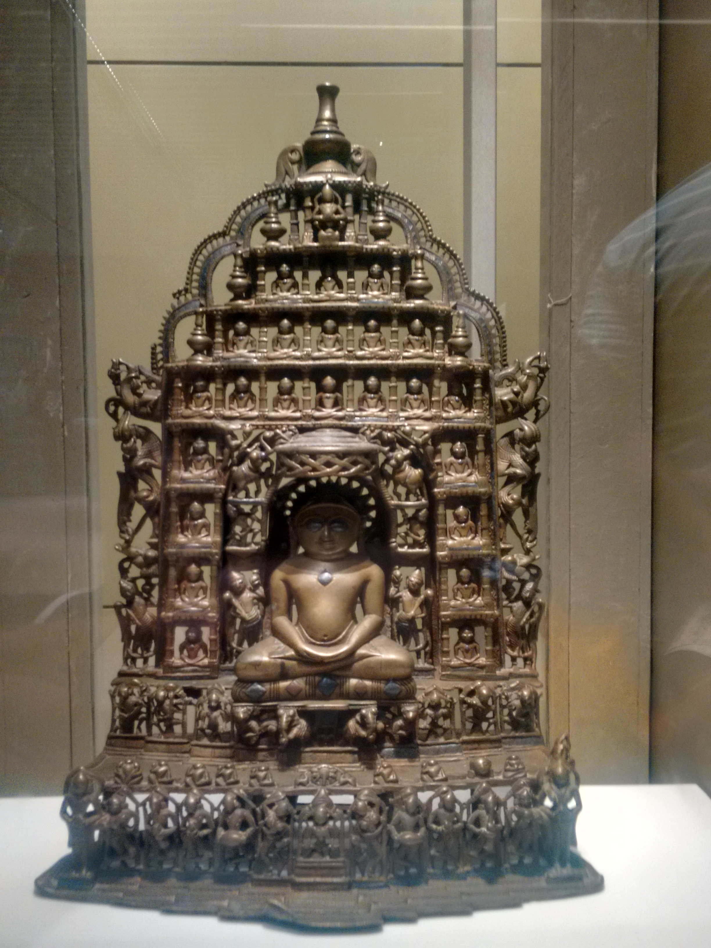 Chaubisi of Kunthunatha, 1465 CE, Western India, National Museum, New Delhi